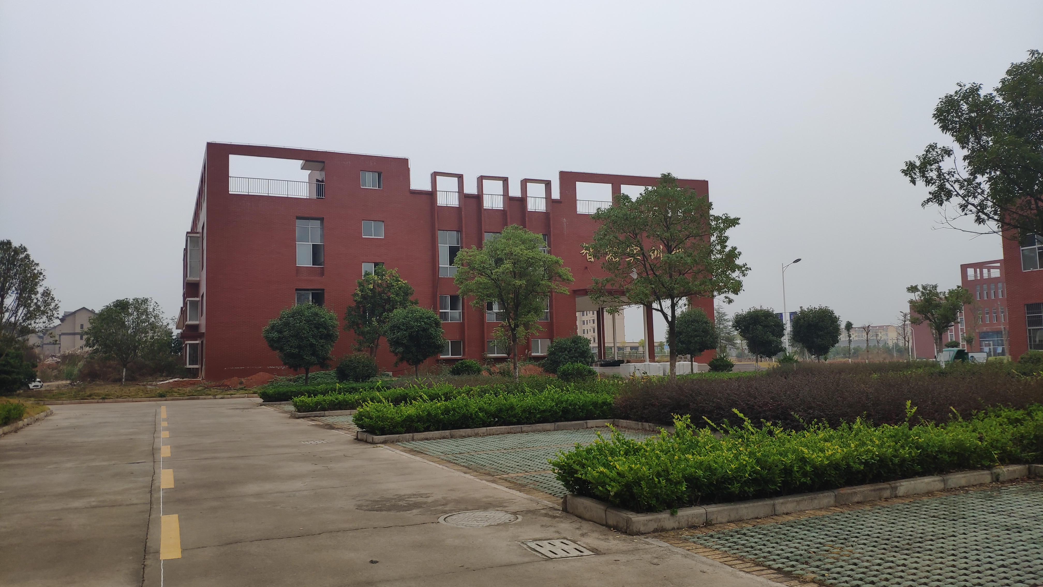 Nanchang Vocational College